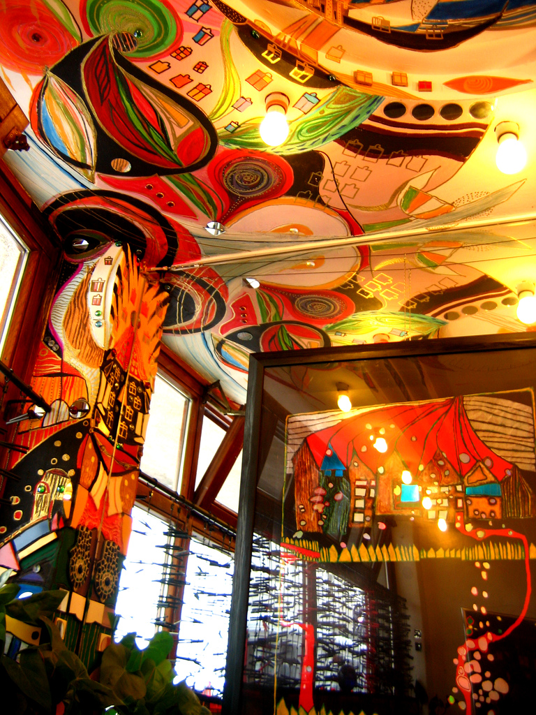 Kuns-Cafe on the groundfloor of Hundertwasserhaus,Austria, Vienna, Hundertwasserhaus